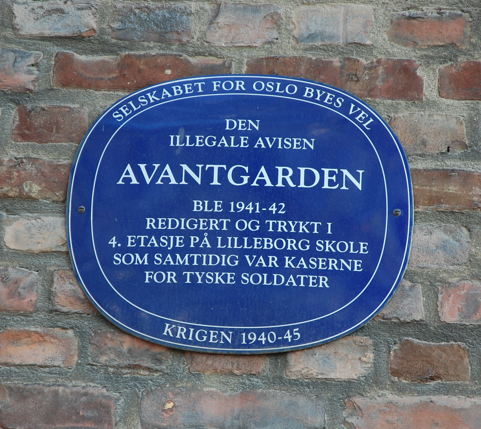 Lilleborg school, Torshovgata 9, in Oslo, Norway. Architect Holm Hansen Munthe